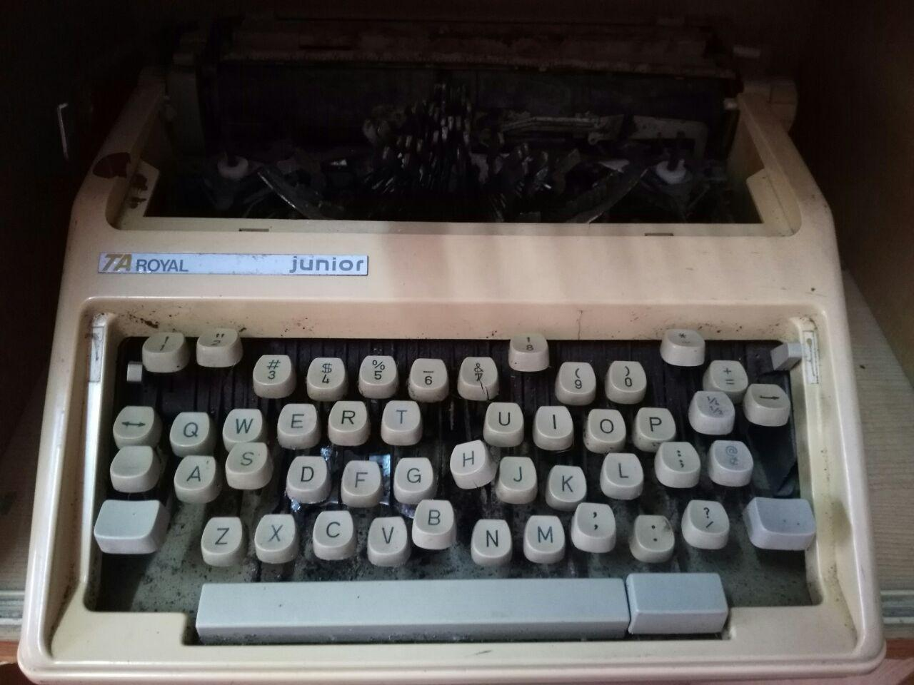 Mesin taip 2